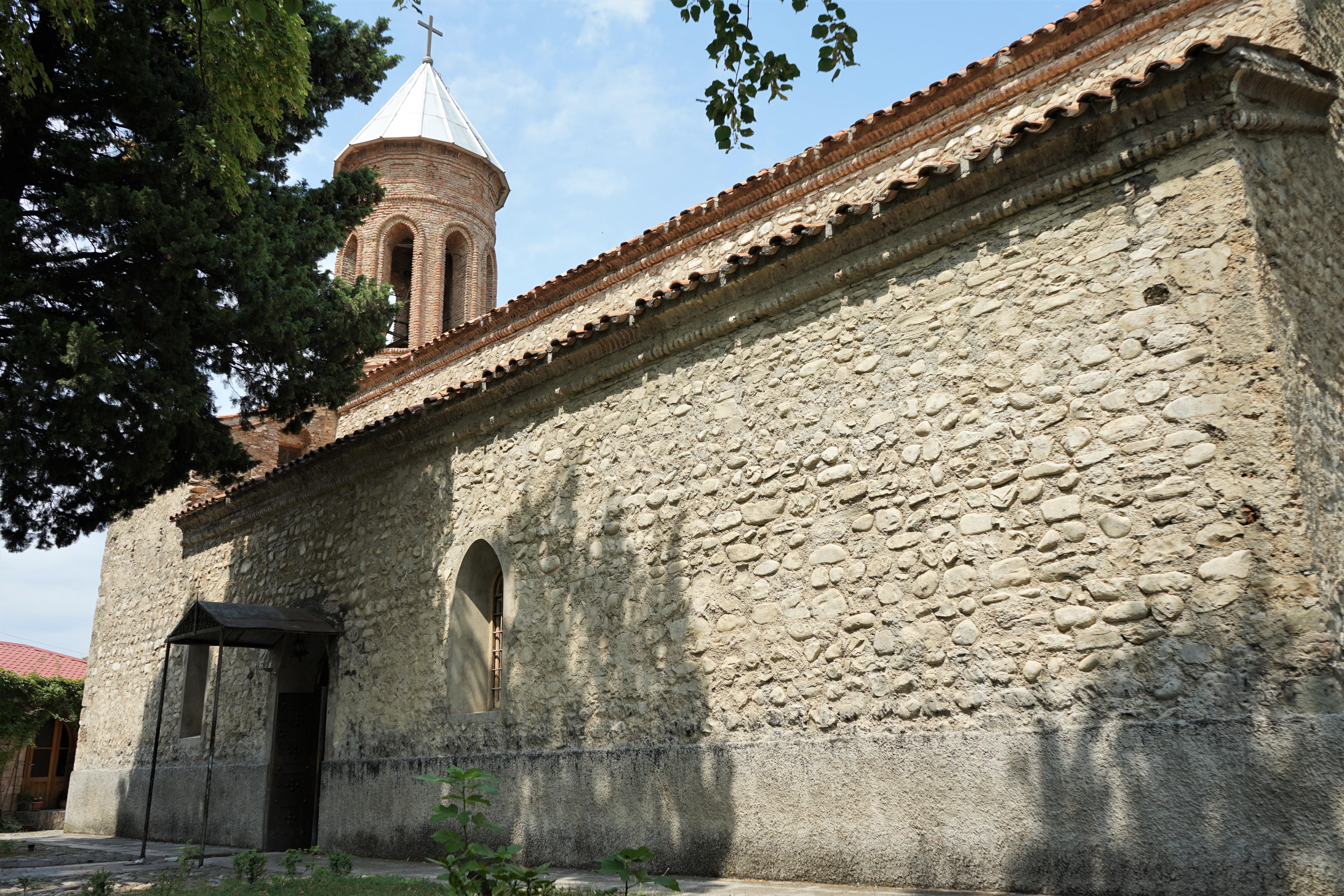 Deity Church of Telavi, Georgia